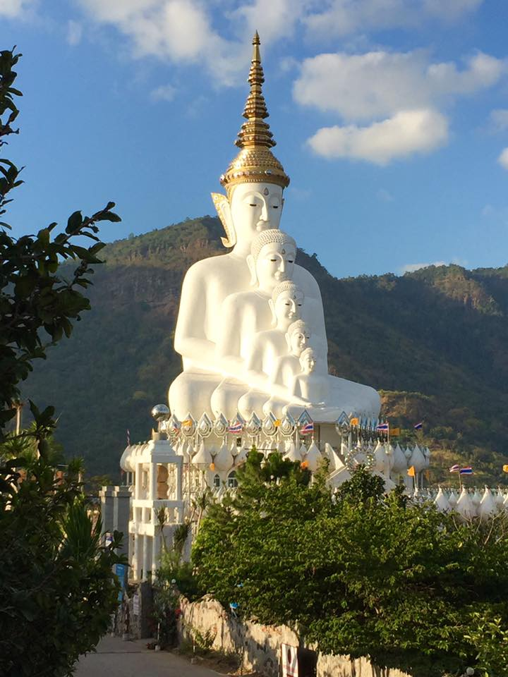 buddha